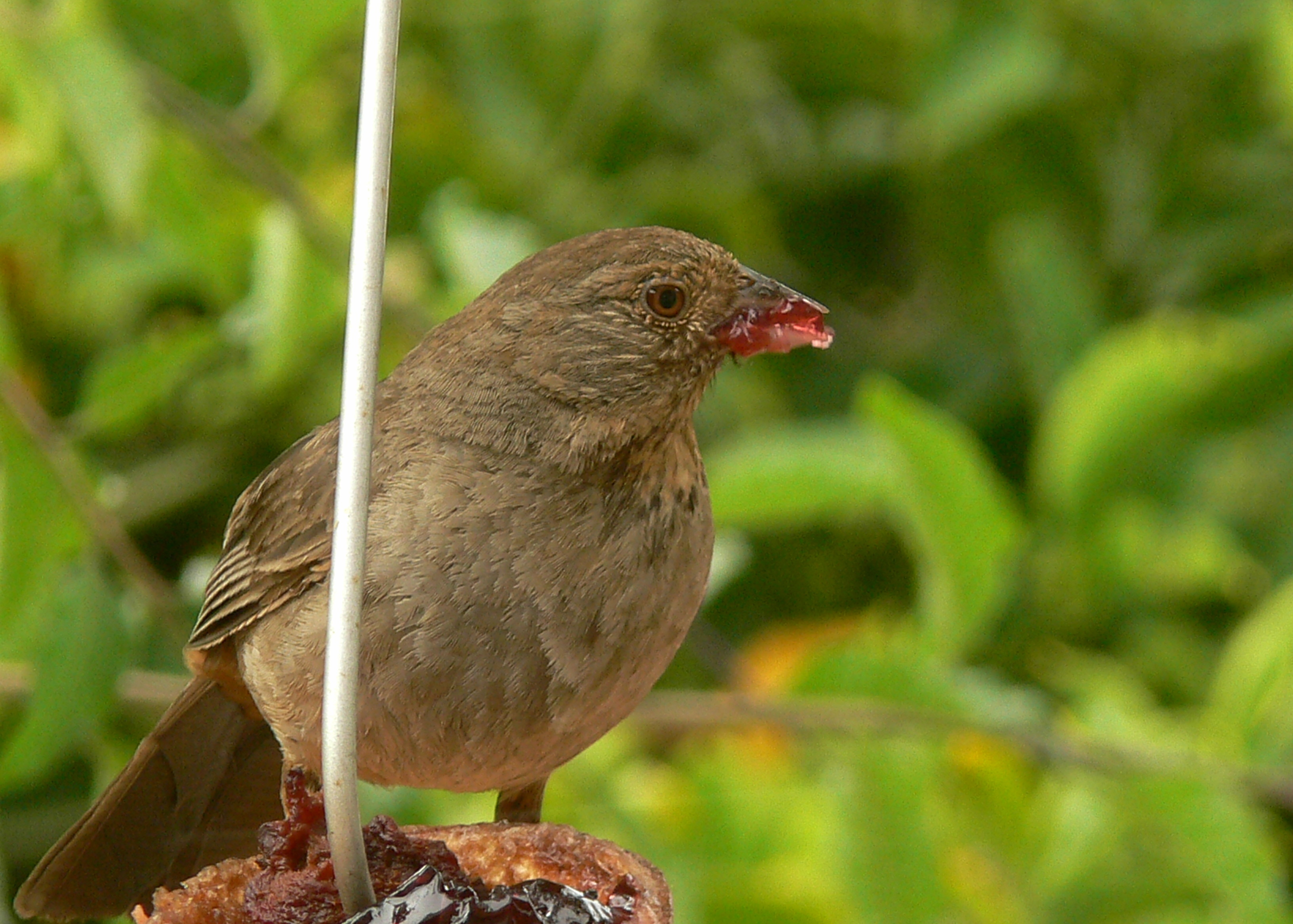 Pipilo crissalis For many years I've had grape jelly feeders hanging in my yard for the Hooded Orioles and I'll sometimes see other birds pecking at the jelly, too. But this is a first...this California Towhee is supposed to be a seed eater, but he's been dipping into the jelly all month.